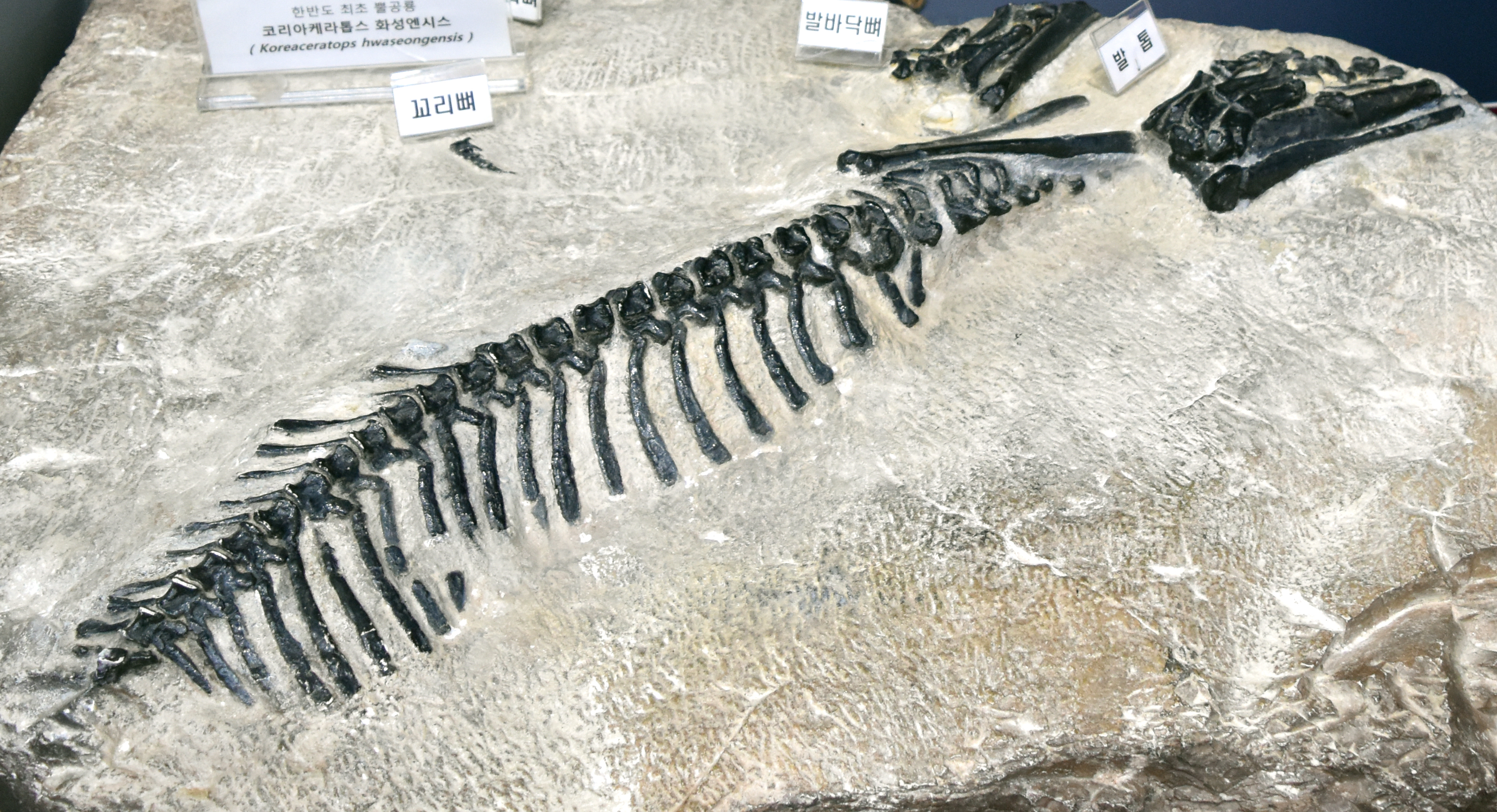 Fossil of Koreaceratops found at Hwaseong-si Gyeonggi-do, Korea.